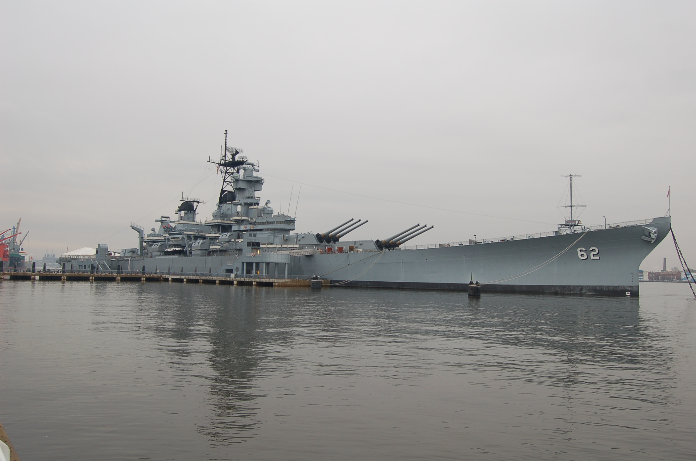 The last rest place off the USS New Jersey in Philedelphia